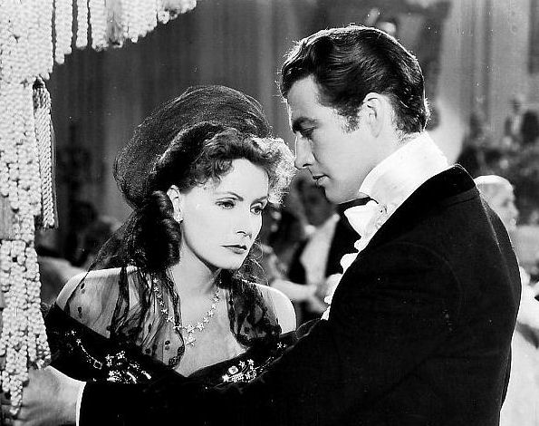 Greta Garbo and Robert Taylor in a publicity still for Camille (1936).